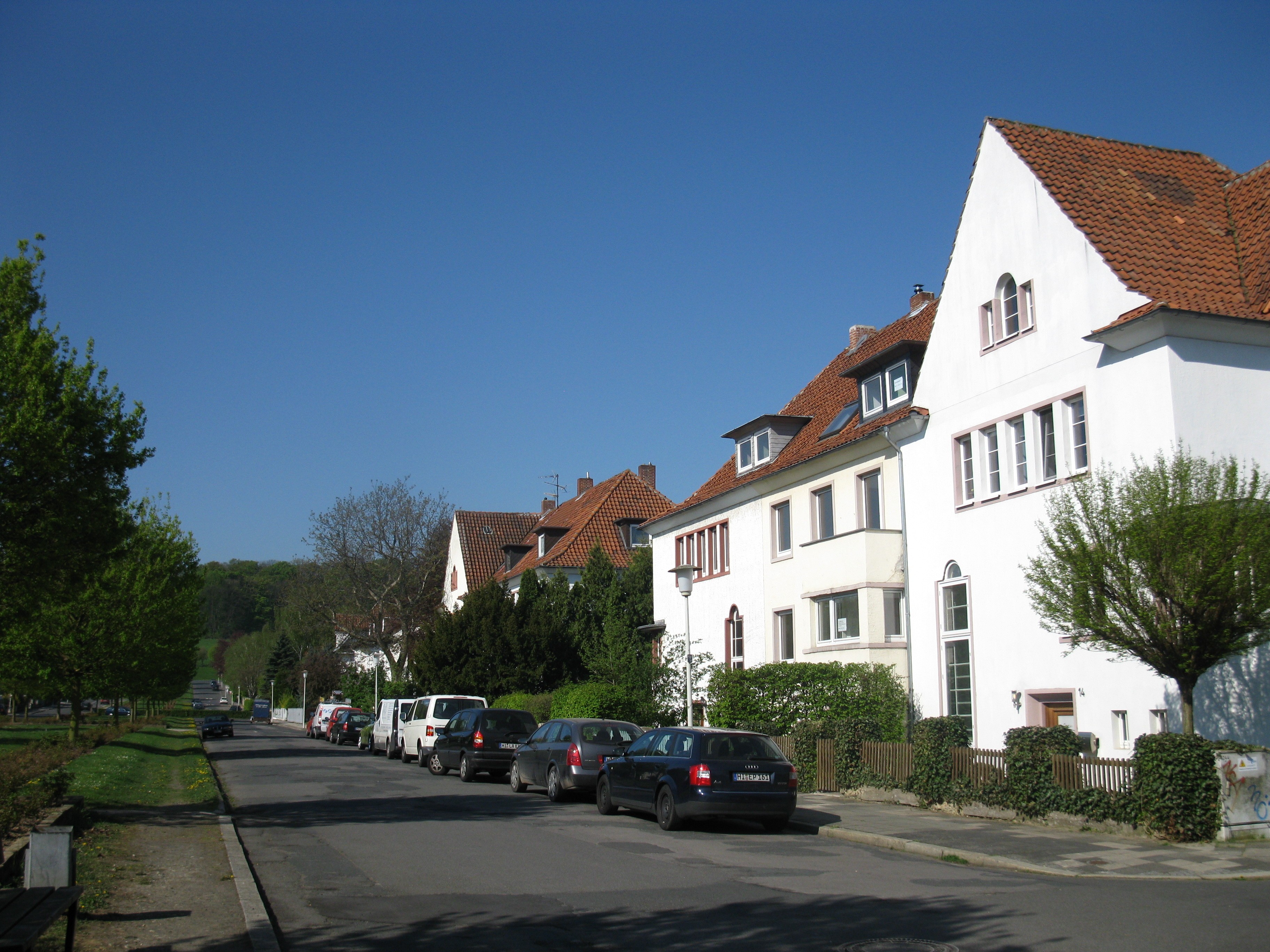 Mittelallee, Hildesheim, in April